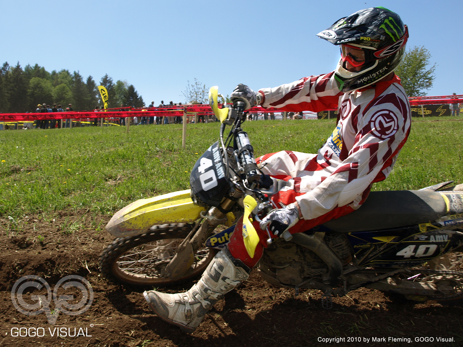 E1 - Paul Edmondson (UK, Suzuki) at the 2010 MAXXIS FIM Enduro World Championship GP of Italy, in Lovere (41st Valli Bergamasche).